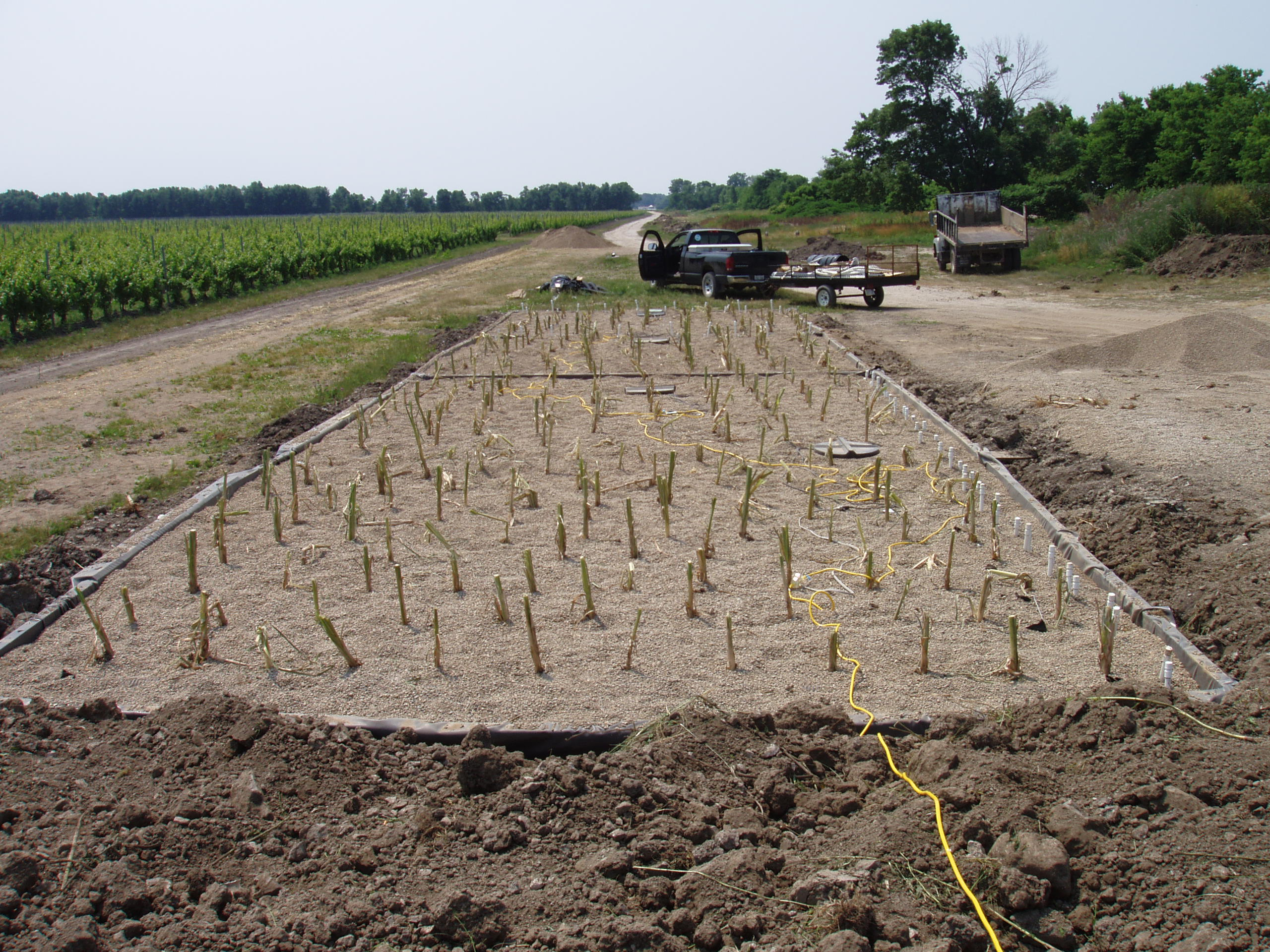 author - lloyd rozema I took this picture myself